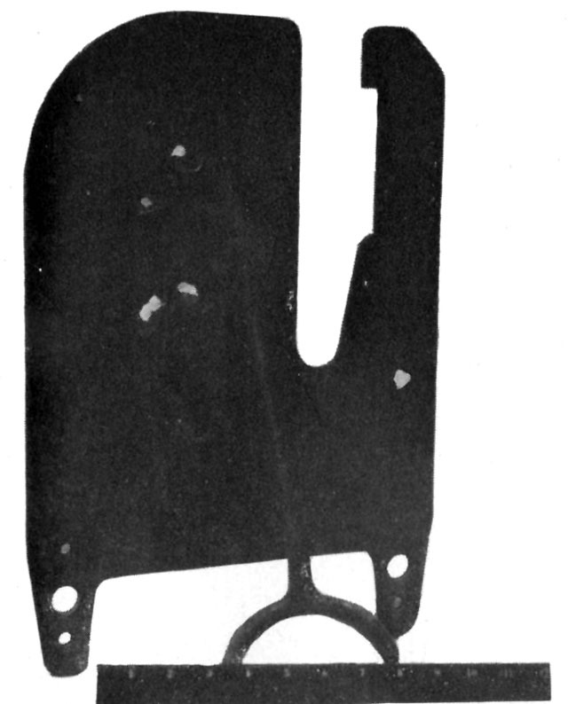 Rear of a Type 99 armor shield, size 14 in. x 20 in., showing penetration made with .30 cal. AP ammunition at 100 yards range and 30° angle of impact from normal. See also File:Type 96 LMG with Type 99 shield.jpg. While these shields are suitable for use in the open, specimens, constructed from what appears to be face-hardened plate, have been found built into the weapon ports of pillboxes. Two sizes have been recovered, the larger measuring 14 by 20 by 1/4 inches (fig. 293) and the smaller 12 by 16 by 1/4 inches. Tests have shown that these shields will resist penetration by .30 caliber ball ammunition at 100 feet. However, some damage may be caused by flaking (chipping). These shields have been penetrated readily by .30 caliber AP ammunition. Figure 293 from the Handbook On Japanese Military Forces.